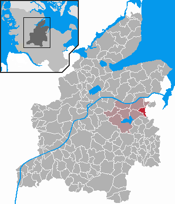 Locator maps of municipalities in Schleswig-Holstein - District Rendsburg-Eckernförde